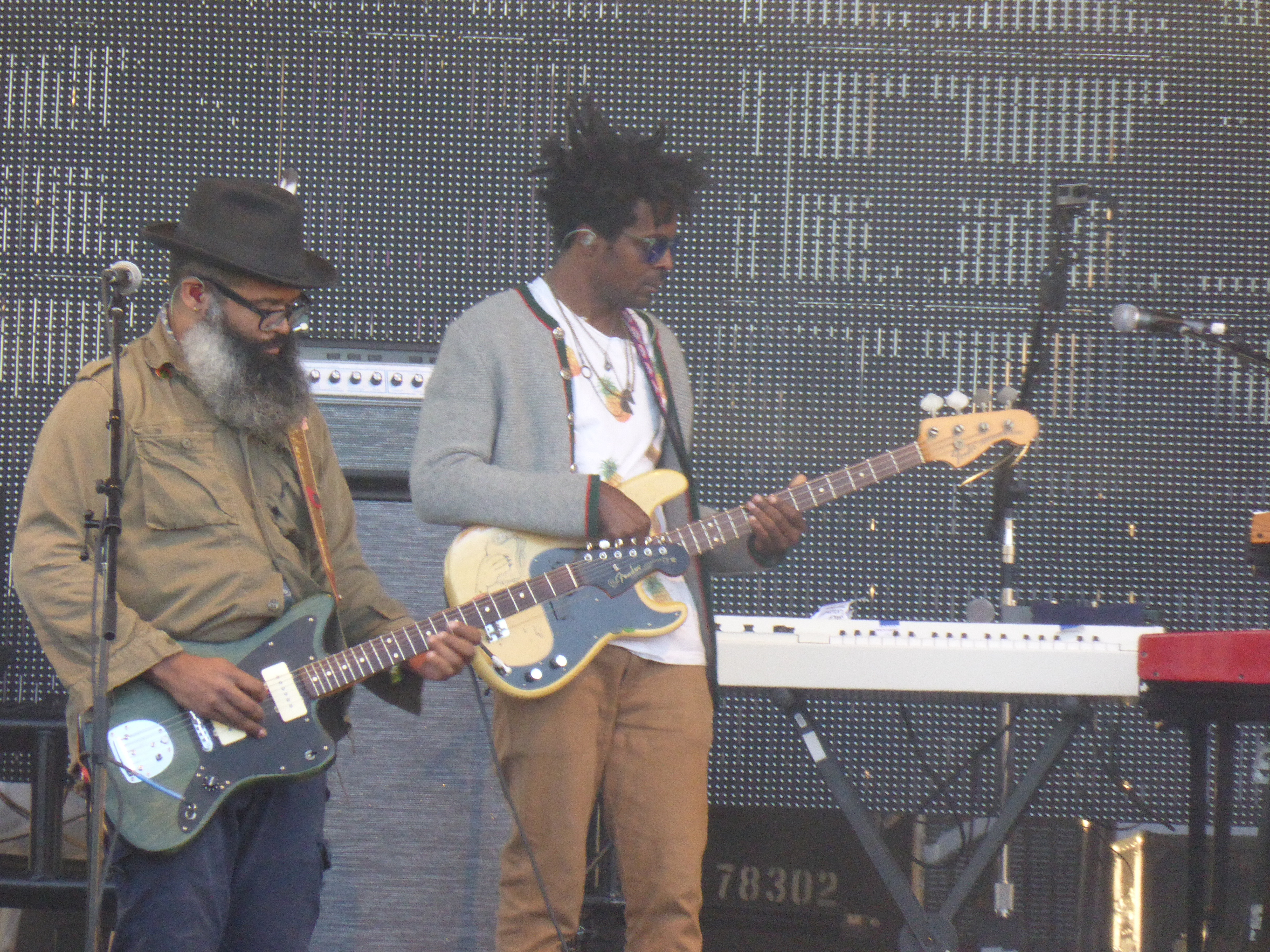 TV on the Radio performing at Treasure Island Music Festival on October 18, 2014 in Treasure Island, California.